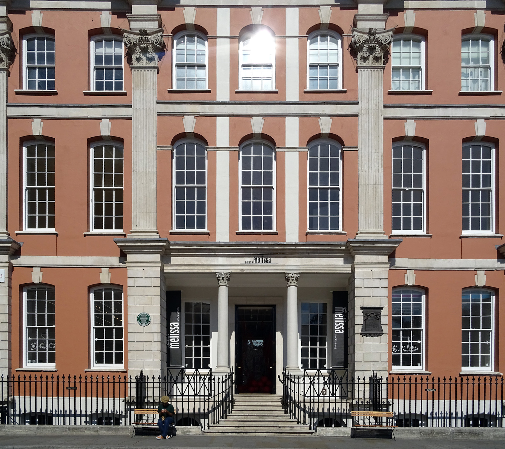 43 King Street, Covent Garden, London WC2E 8JY "This building was once known as The National Sporting Club March 1891-October 1929 which under its president Hugh Cecil Lowther the Fifth Earl of Lonsdale and co-founders Arthur 'Peggy' Bettinson and John Fleming became the home of modern glove boxing"